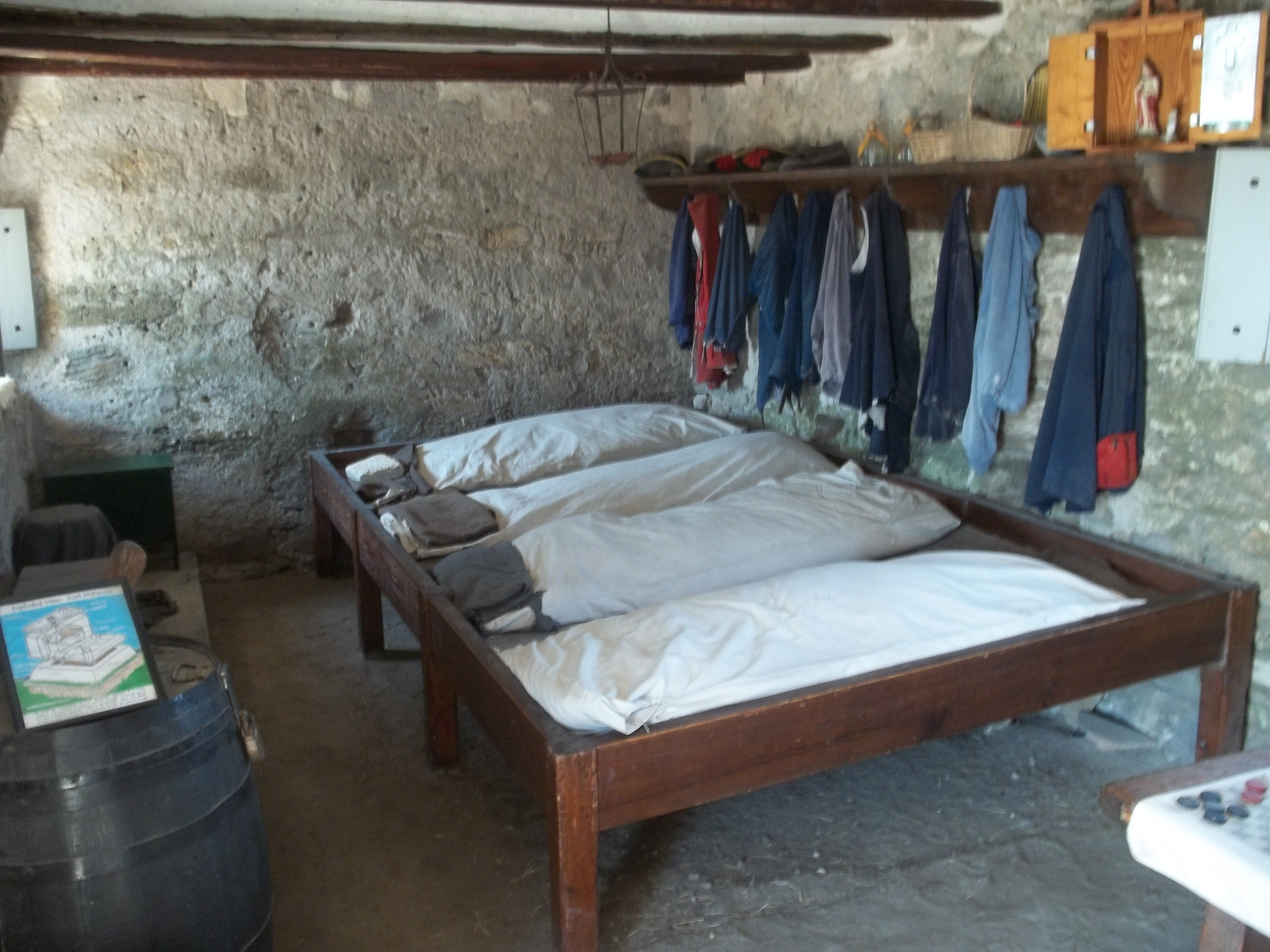 Near Crescent Beach, Florida: Fort Matanzas National Monument: Living quarters